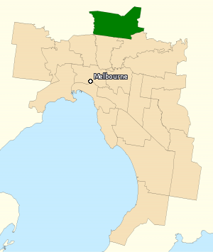 This image incorporates data that is: © Commonwealth of Australia (Australian Electoral Commission) 2009 Division of Scullin 2010